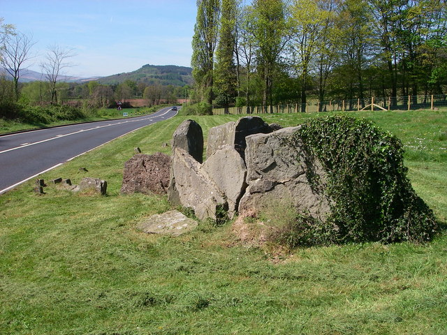 Gwernvale Neolithic burial chamber It may have been off the beaten track back then but as the shot shows the remains of this ancient monument now lies on the verge of the A40 trunk road. The former extent of the barrow is marked by short concrete posts in the sward. The wooded eastern slopes of Myarth are visible up the valley in the distance.